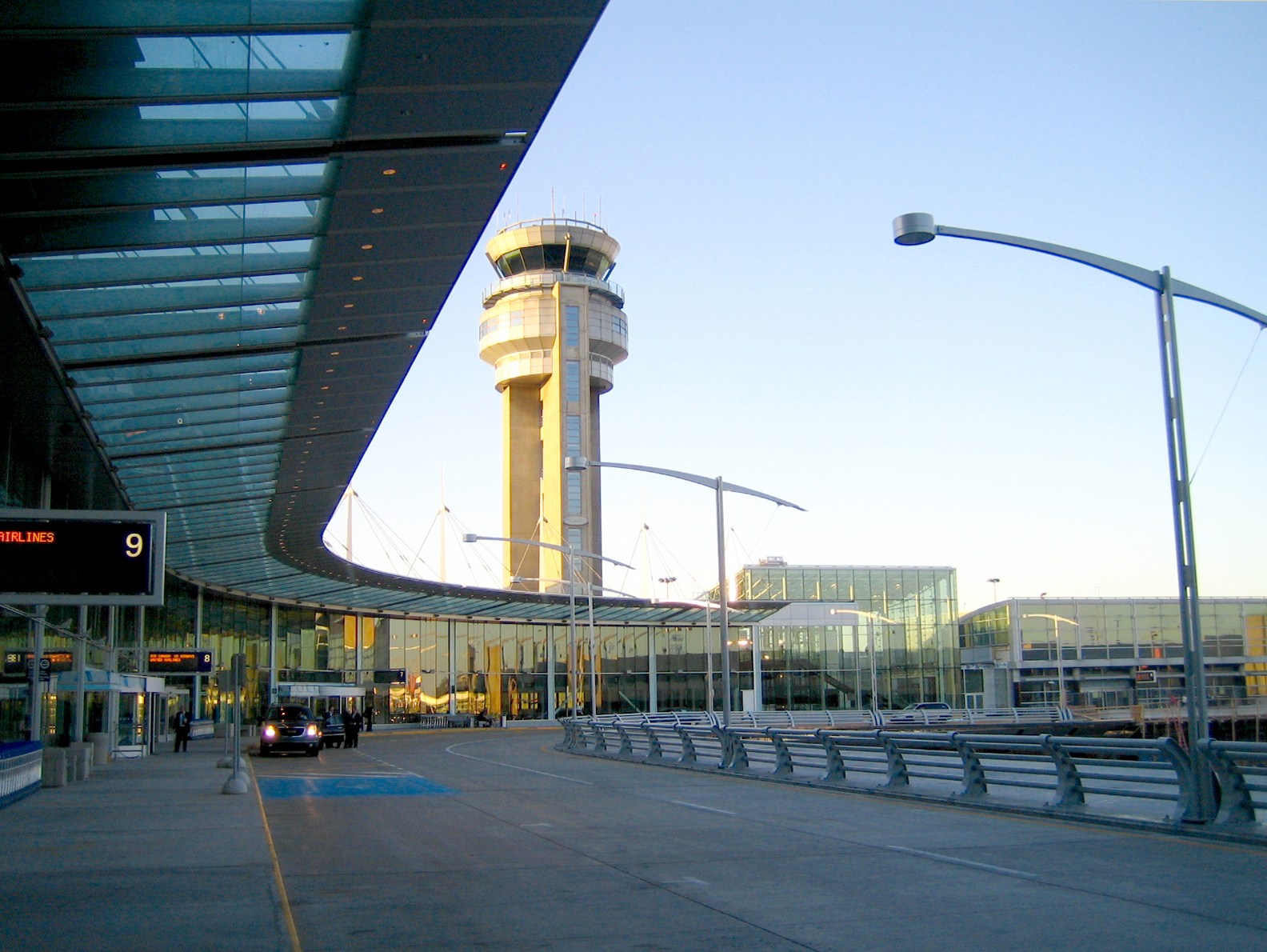 New U.S. Departures sector + control tower at Montréal-Pierre Elliott Trudeau International Airport (YUL) in Septembre 2009.